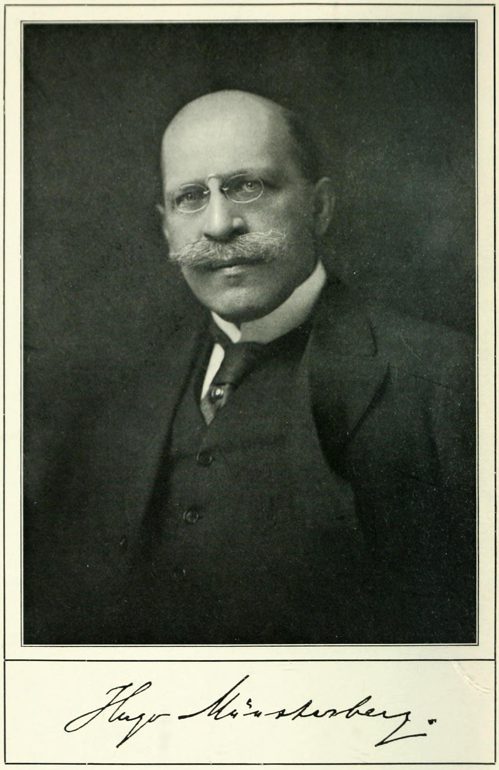 Photograph of the german psychologist Hugo Münsterberg. It appeared in his book "Grundzüge der Psychologie" in 1900.